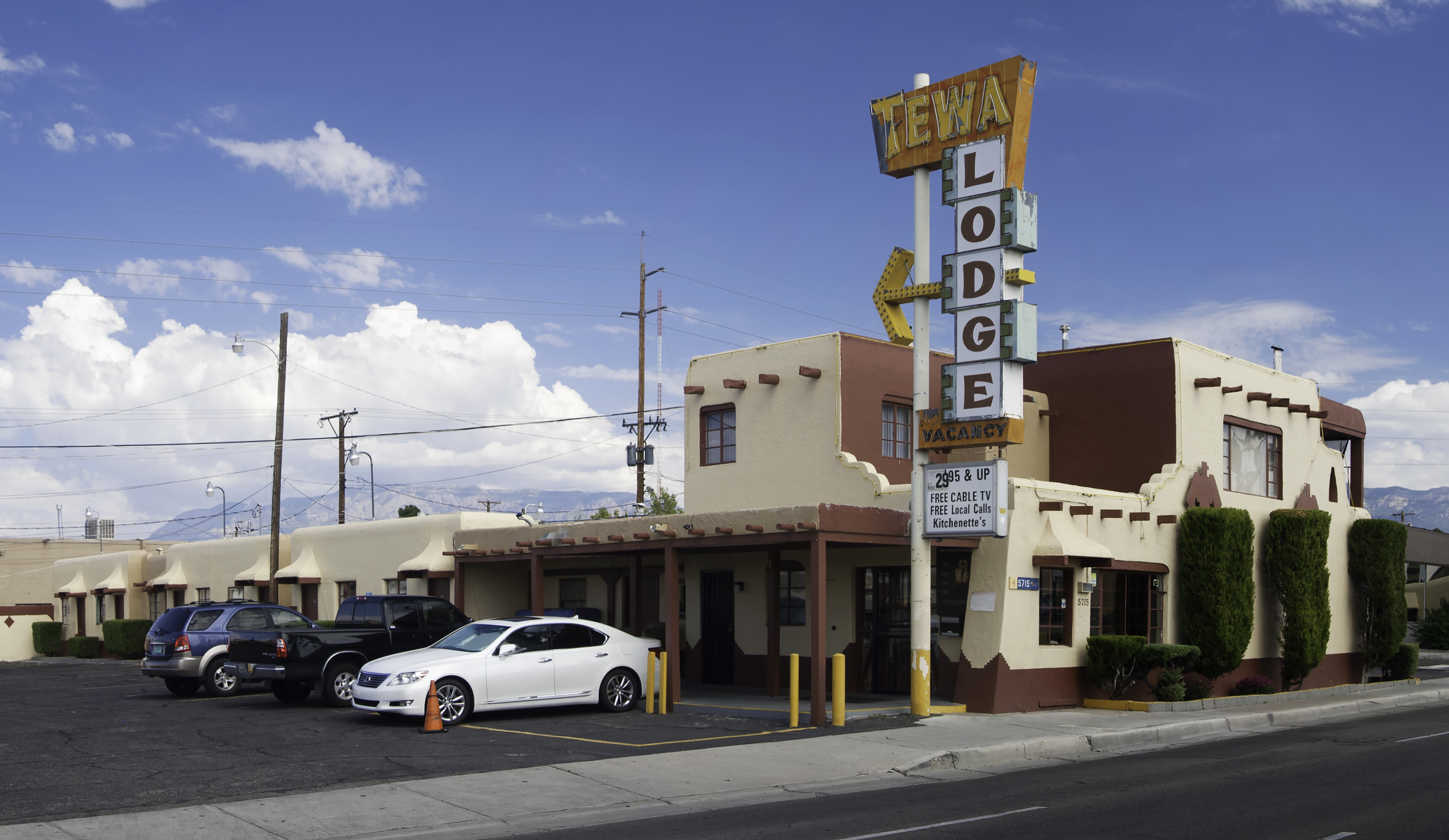 Tewa Lodge, 5715 Central Ave. NE. Albuquerque